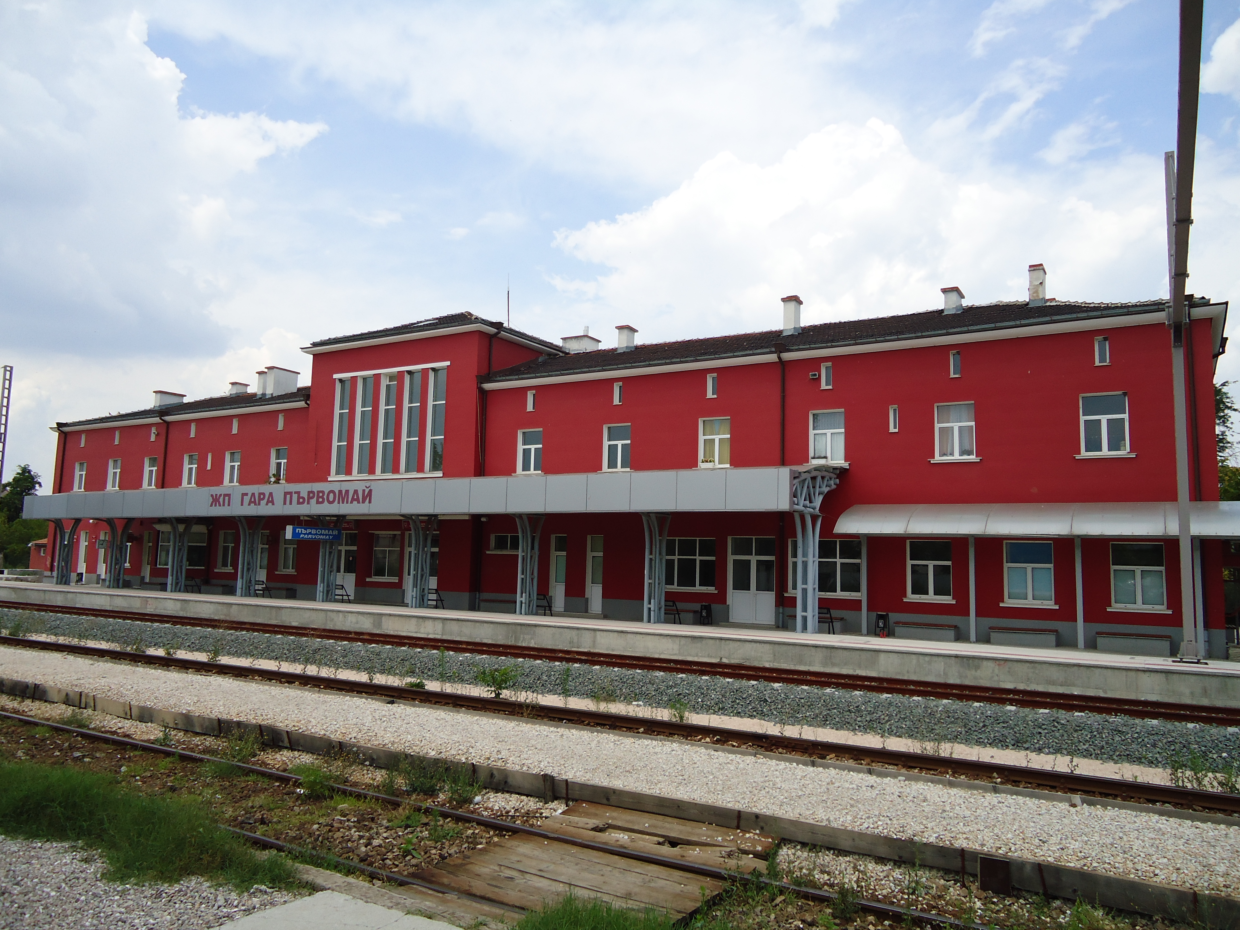 parvomay station during renovation 2010